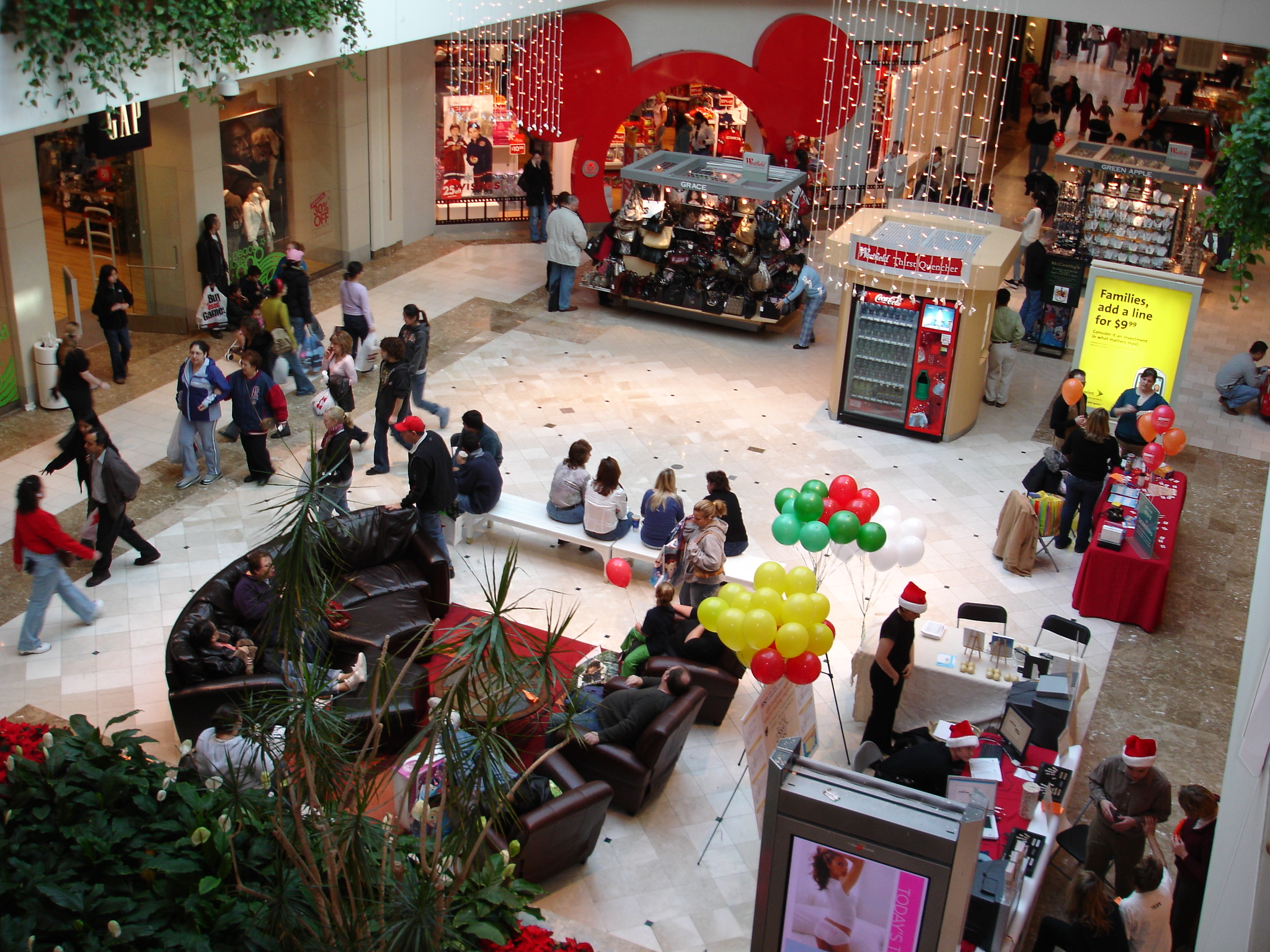 Picture taken by Vytis1 on Black Friday, November 24th, 2006 in Vernon Hills, Illinois